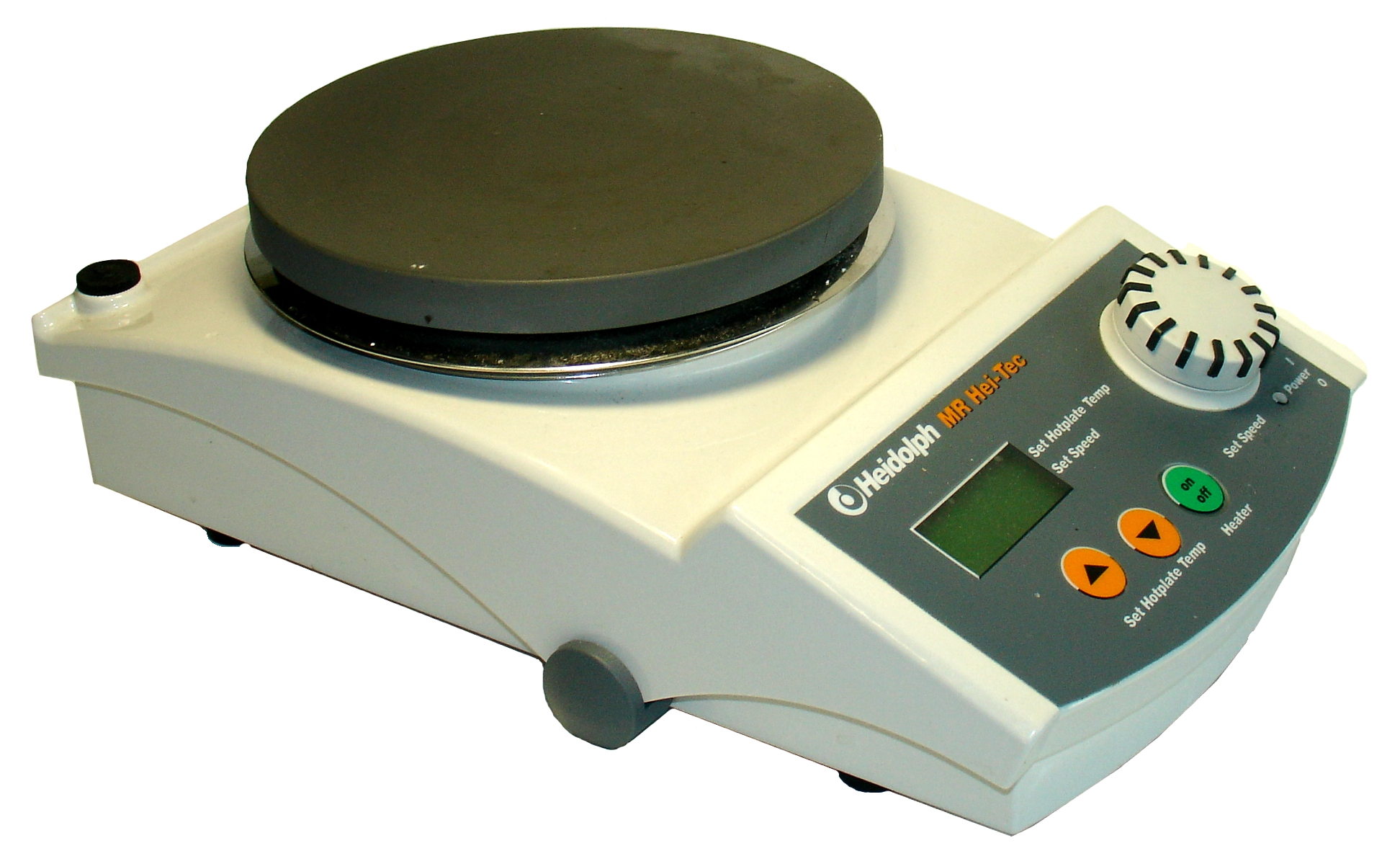 Magnetic stirrer with heating plate